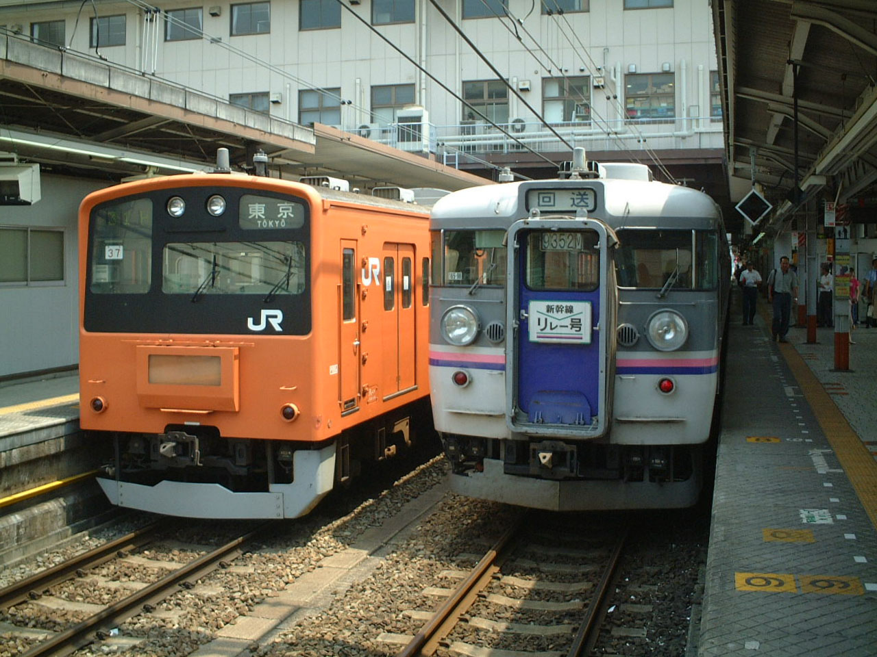 JR East 165 series EMU set M6 on a Shinkansen Relay rapid service alongside a Chuo Line 201 series EMU at Hachioji Station